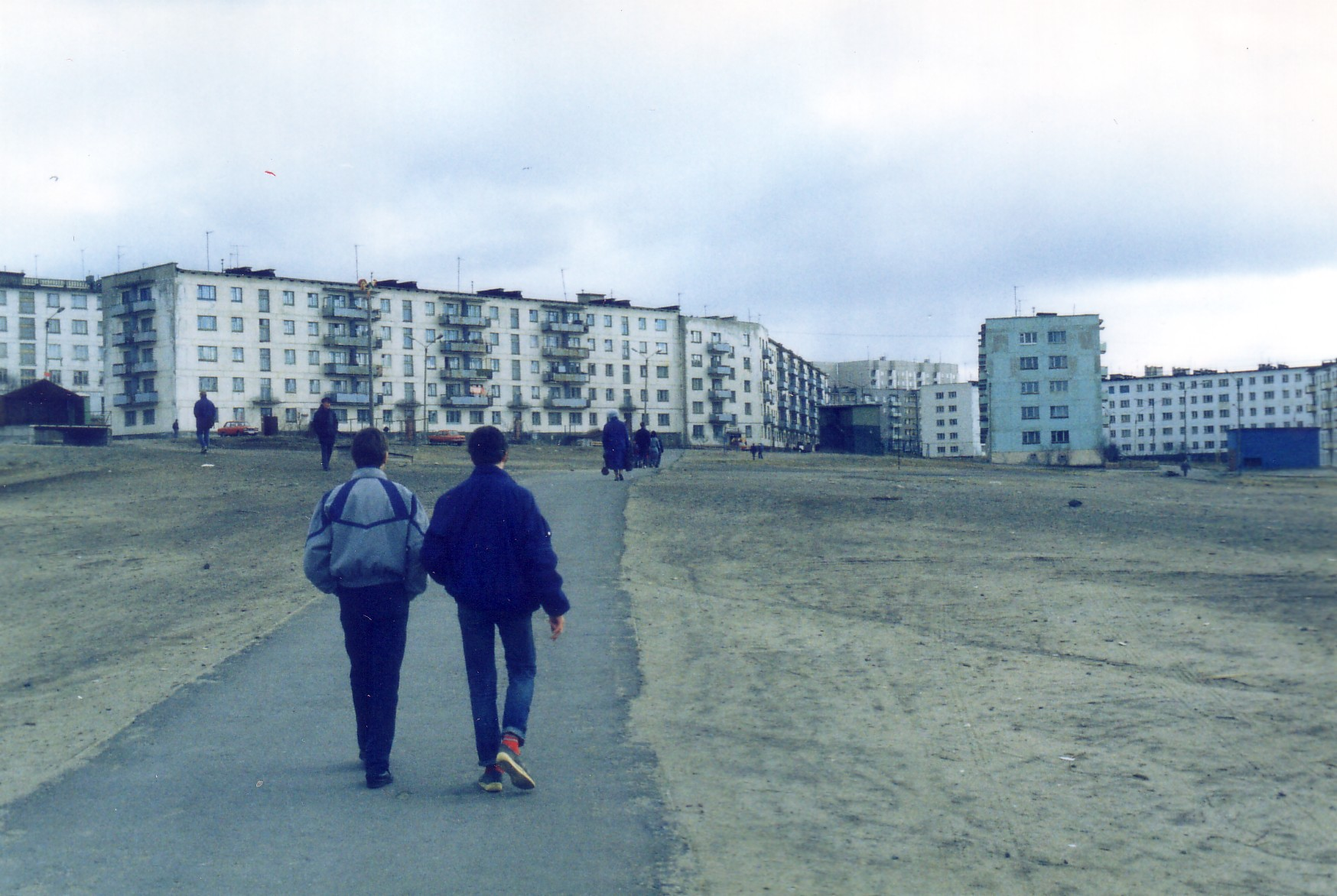 Apartment buildings in Nikel, Murmansk Oblast in Russia